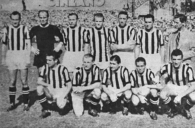 Genoa (Italy), Luigi Ferraris Stadium, September 28, 1947. A line-up of Juventus F.C. took to the field in the away victory versus Genoa C.F.C., Matchday 3 of the Italian Championship 1947–48 Serie A. From left to right, standing: F. Cergoli, F. Cavalli, J. Arpáš, G. Boniperti, P. Rava (captain), V. Sentimenti III, R. Cesarini (coach); crouched: F. Grosso, M. Kincses, T. Depetrini, A. Caprili, C. Parola.